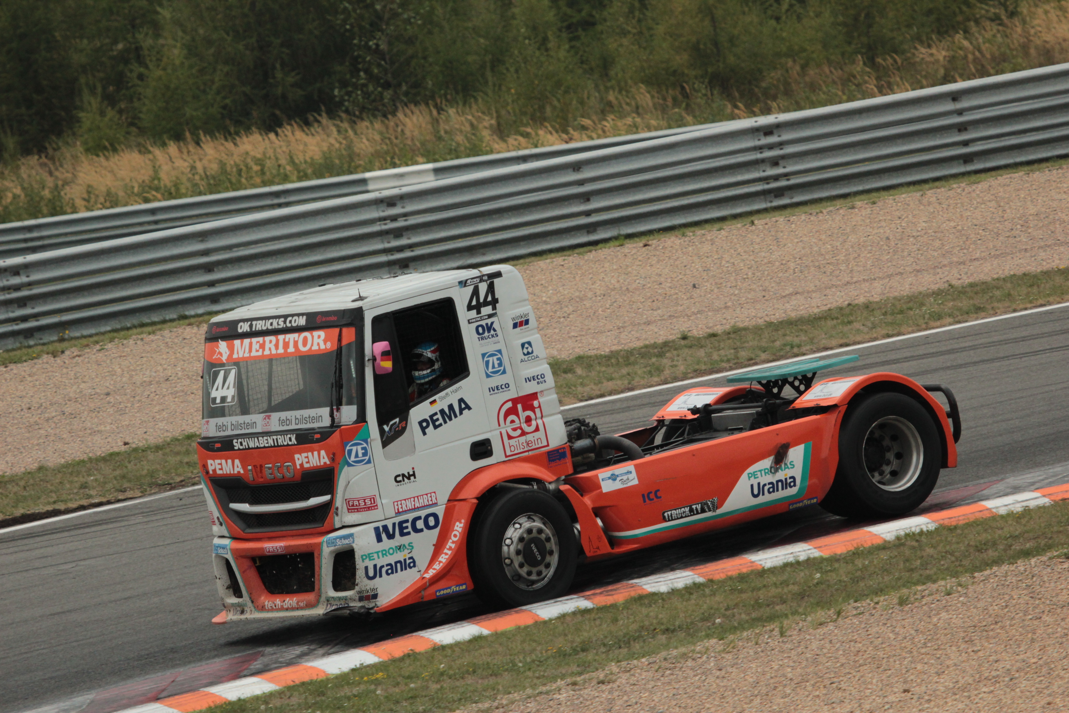 Stephanie Halm at Most in 2018, European Truck Racing Championship